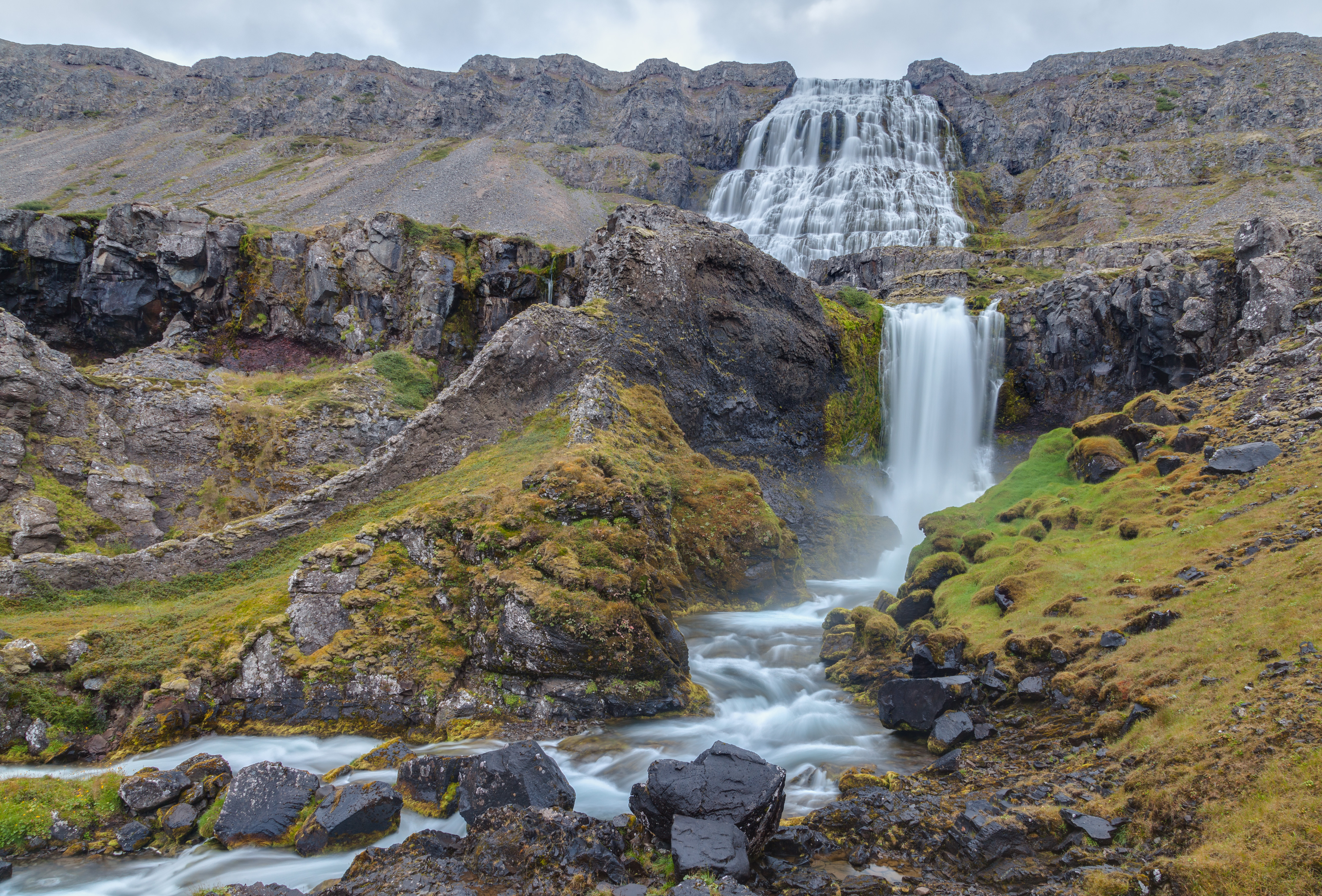 Waterfall Dynjandi, Vestfirðir, Iceland